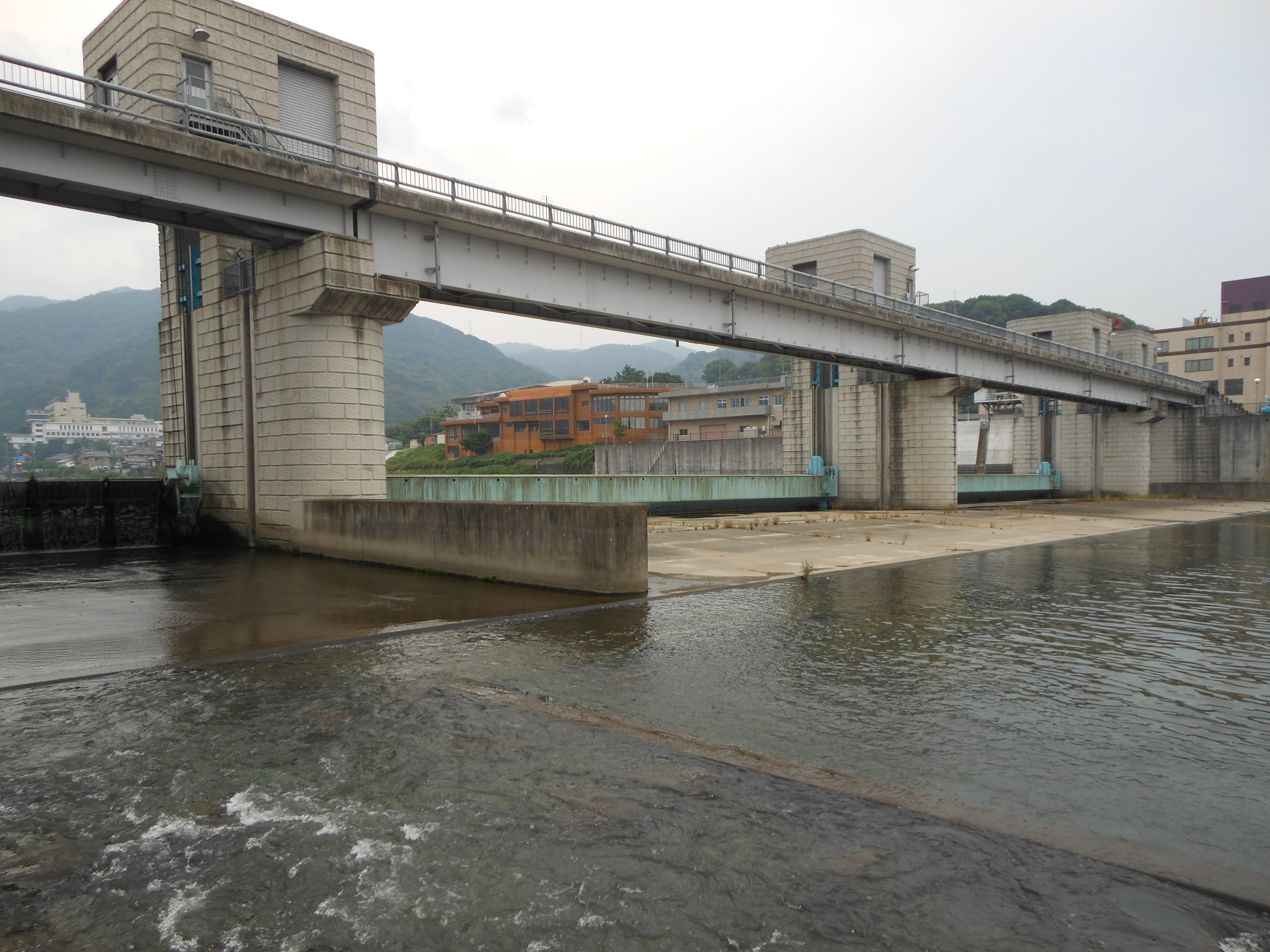 Kawakami Headworks(Kawakami Toshuko) in Kase River, Yamato, Saga City.